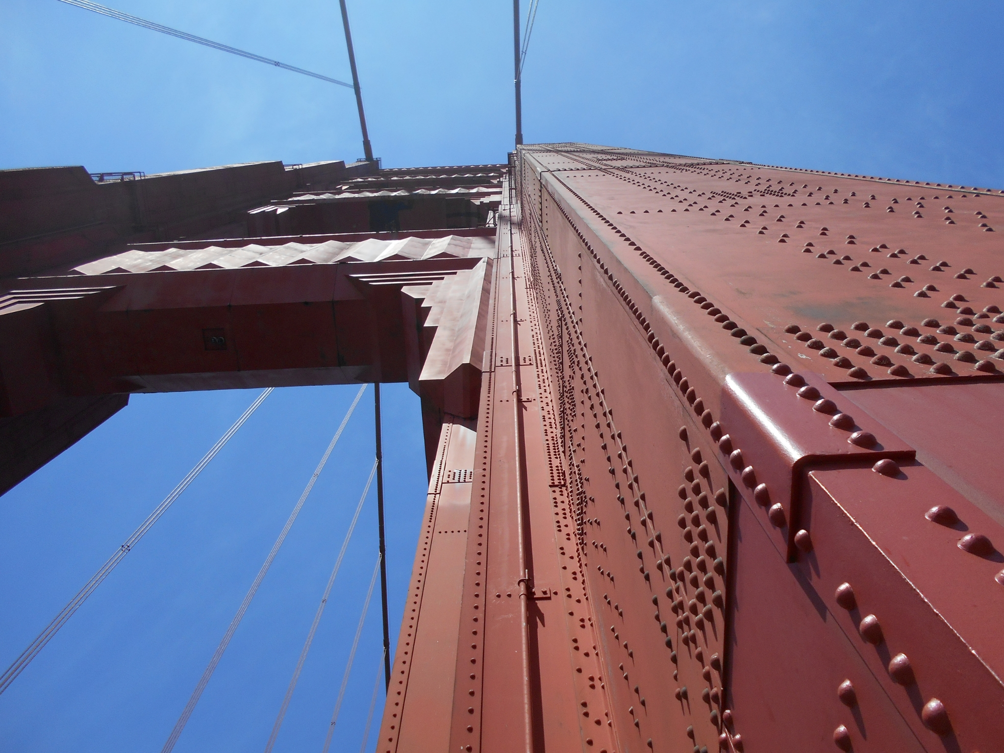 Looking up at a Golden Gate Bridge tower